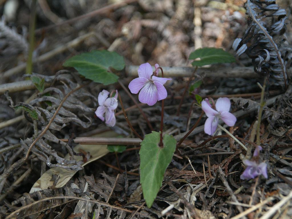 Viola violacea